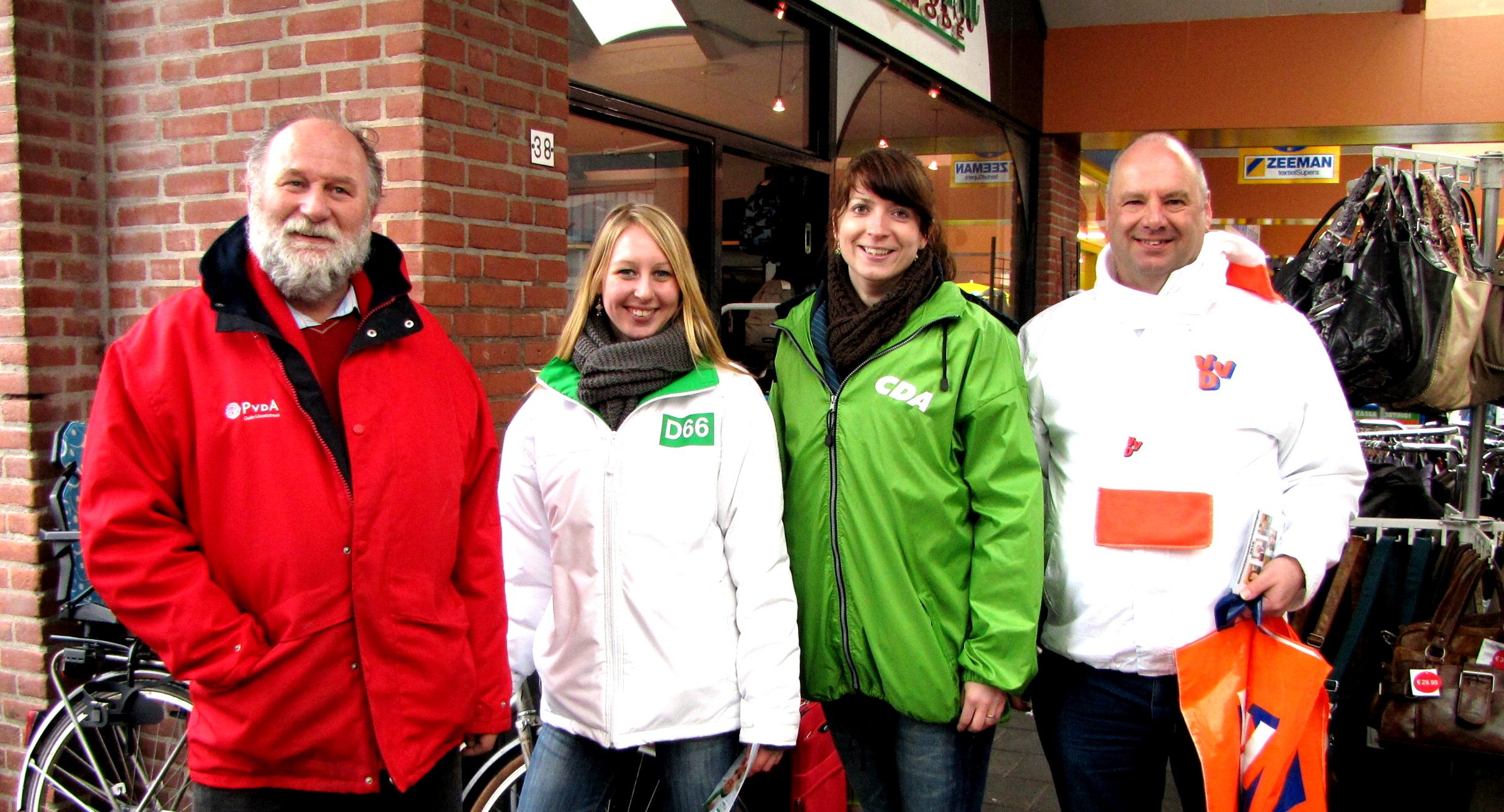 Ulft (municipality Oude IJsselstreek, the Netherlands): At a shopping center parties on campaign, on last saturday before the municipal elections of March 3rd, 2010. From the left to the right: members of PvdA, D66, CDA and VVD in party dress.